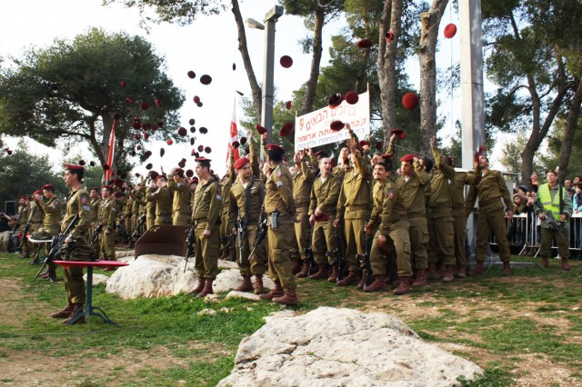 At the end of the exhausting Masa Kumtah (beret march), the Paratroopers receive the highly coveted red beret. These soldiers have waited and trained long and hard for this highly regarded ceremony. Featured as Photo of the Day on February 21, 2012 The Israel Defense Forces Facebook The Israel Defense Forces blog Follow us on Twitter